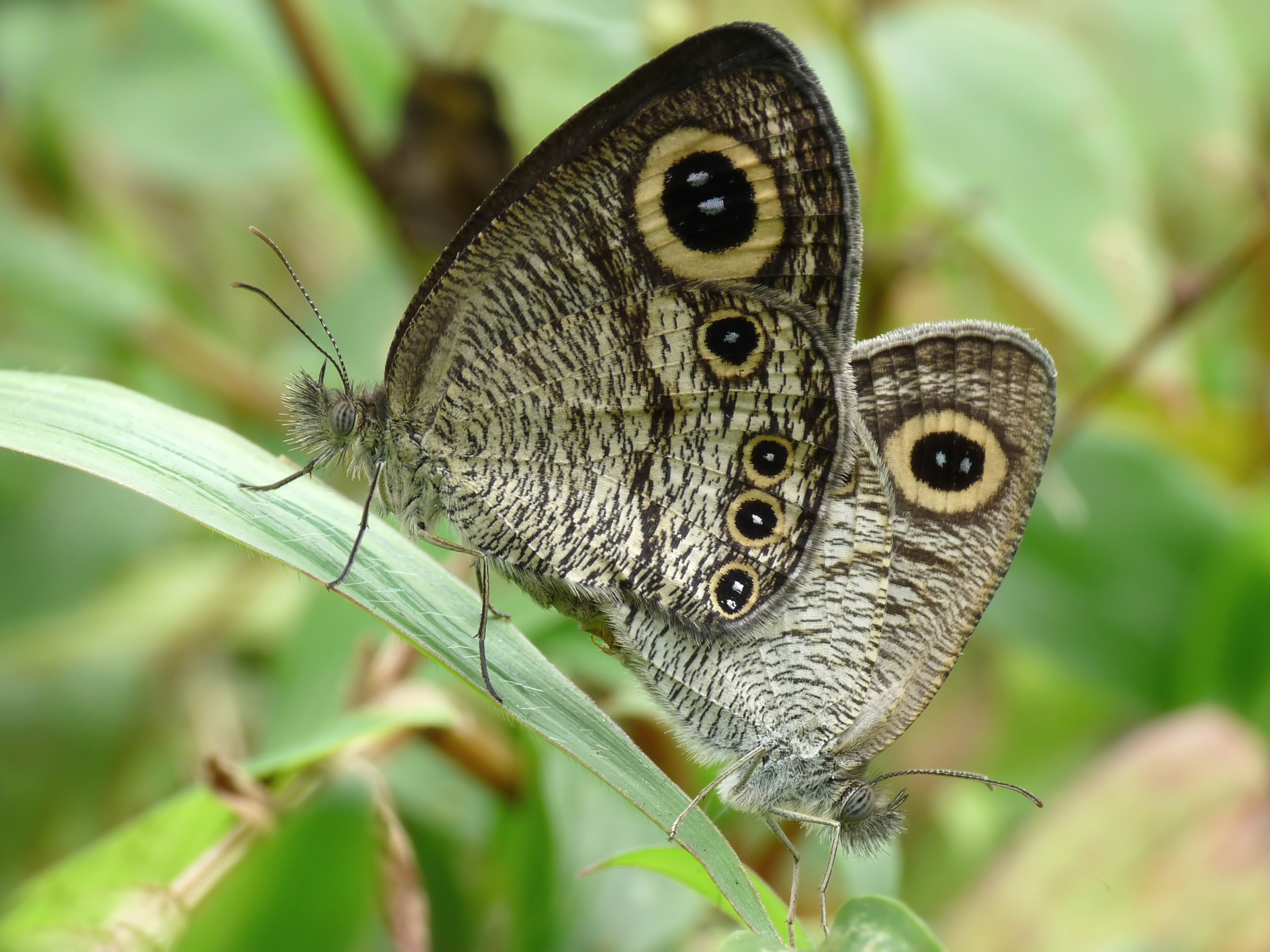 Ypthima huebneri, Common Fourring, is a species of Satyrinae butterfly found in Asia. Taken at Kadavoor, Kerala, India.